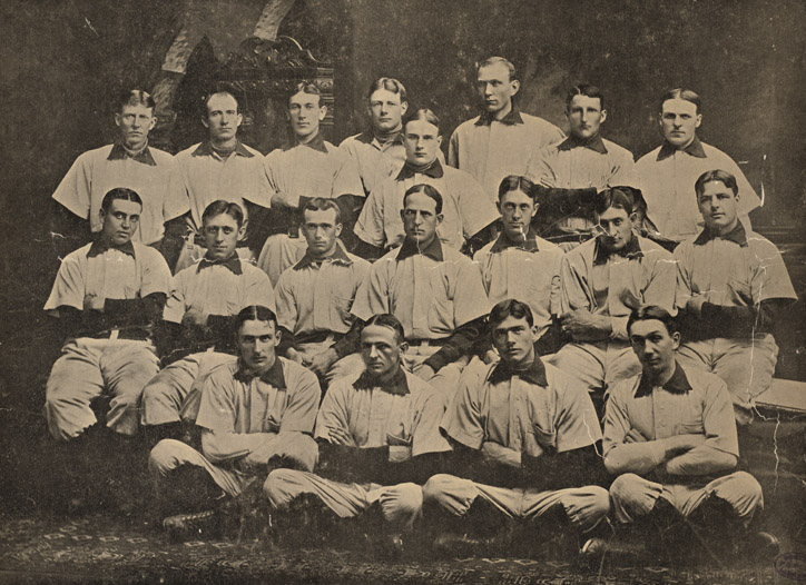 Pittsburgh Pirates team picture Description: Newspaper illustration from unidentified source. Players pictured are: Brickyard Kennedy, Sam Leever, Deacon Phillippe, Ginger Beaumont, Bucky Veil, Gus Thompson, Claude Ritchey, Fred Carisch. Ed Phelps, Kitty Bransfield, Tommy Leach, Fred Clarke, Art Weaver, Honus Wagner, Harry Smith, Joe Marshall, Otto Krueger, Jimmy Sebring and Jack Pfeister.Pittsburgh Pirates team picture